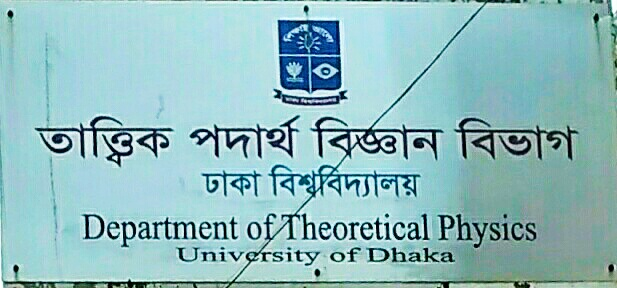 Name plate of Department of Theoretical Physics, Curzon Hall, University of Dhaka. (29.03.2019)